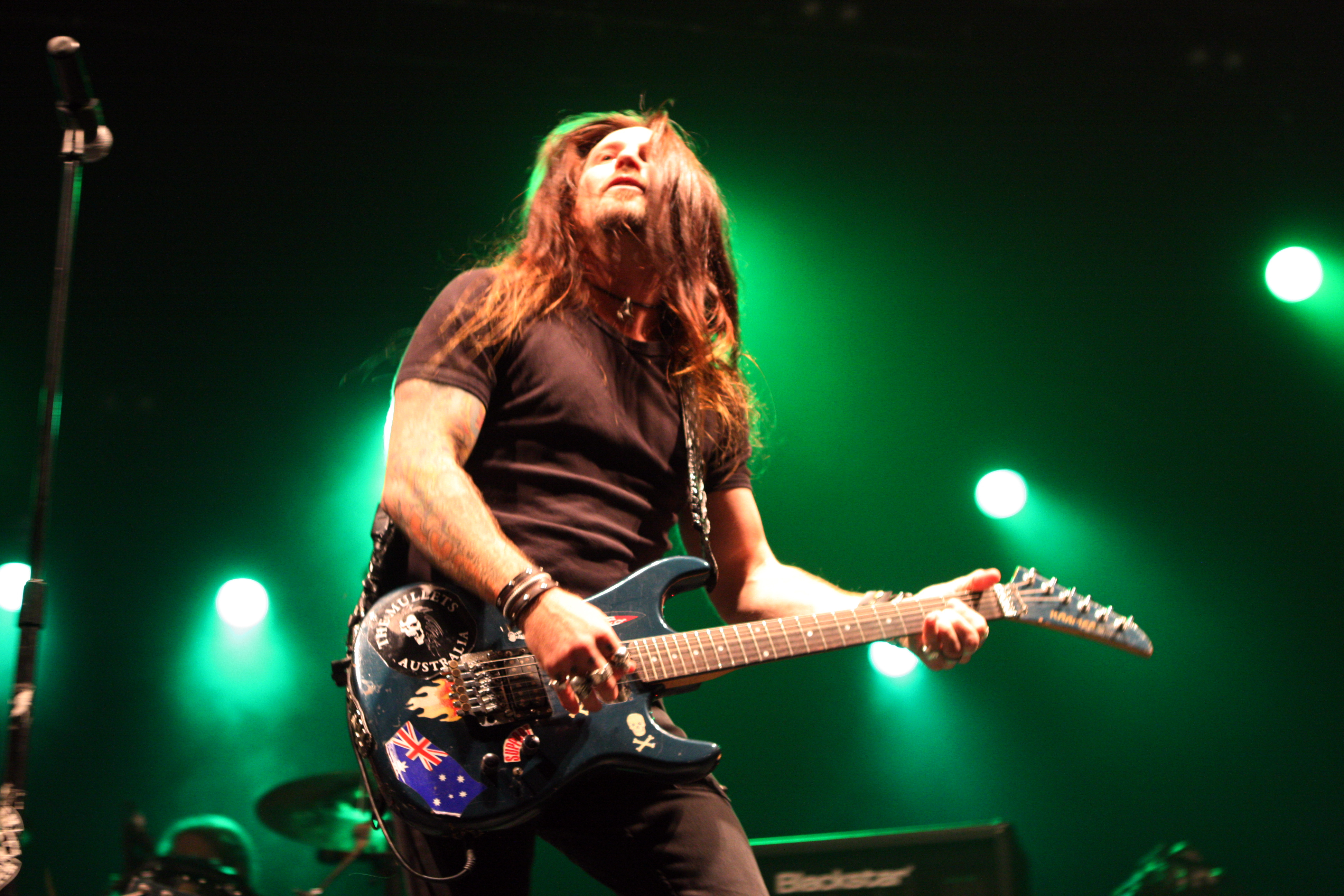 The Poor @ Enmore Theatre